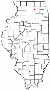 Category:Illinois city locator maps